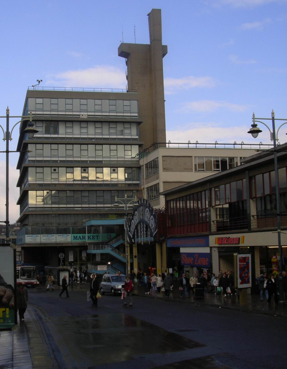 Castle Market in Sheffield, from the south west.